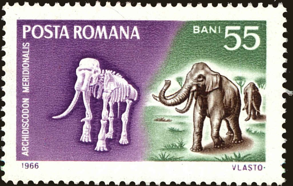 Southern-Elephant-Archidiskondon-meridionalis